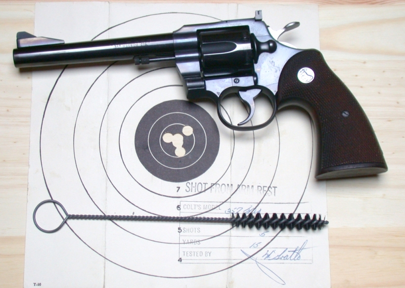 Colt 357 Magnum